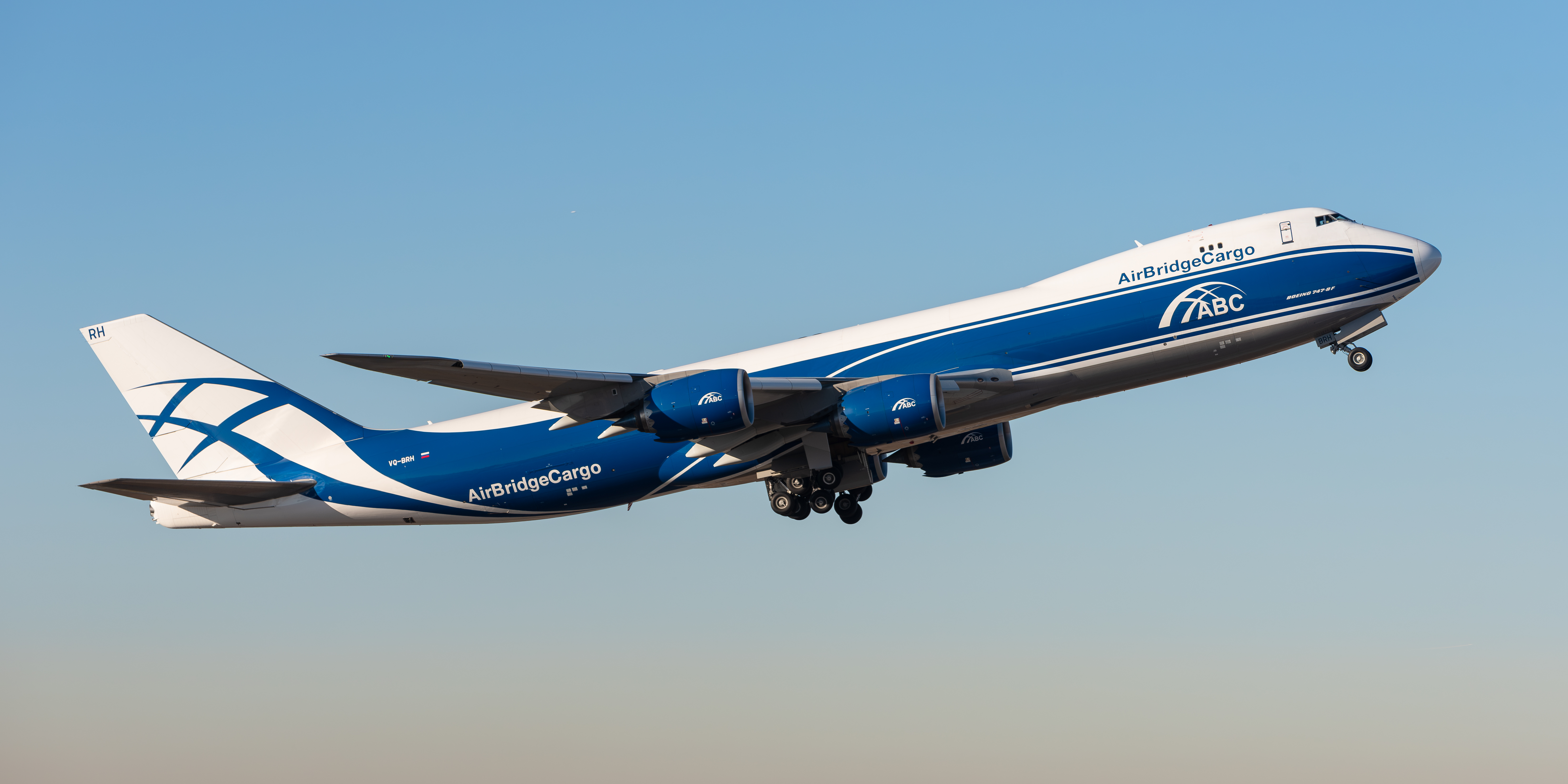 ABC (AirBridgeCargo Airlines) Boeing 747-8HVF/SCD (reg. VQ-BRH, msn 37669/1463) at Munich Airport (IATA: MUC; ICAO: EDDM) departing 08R.